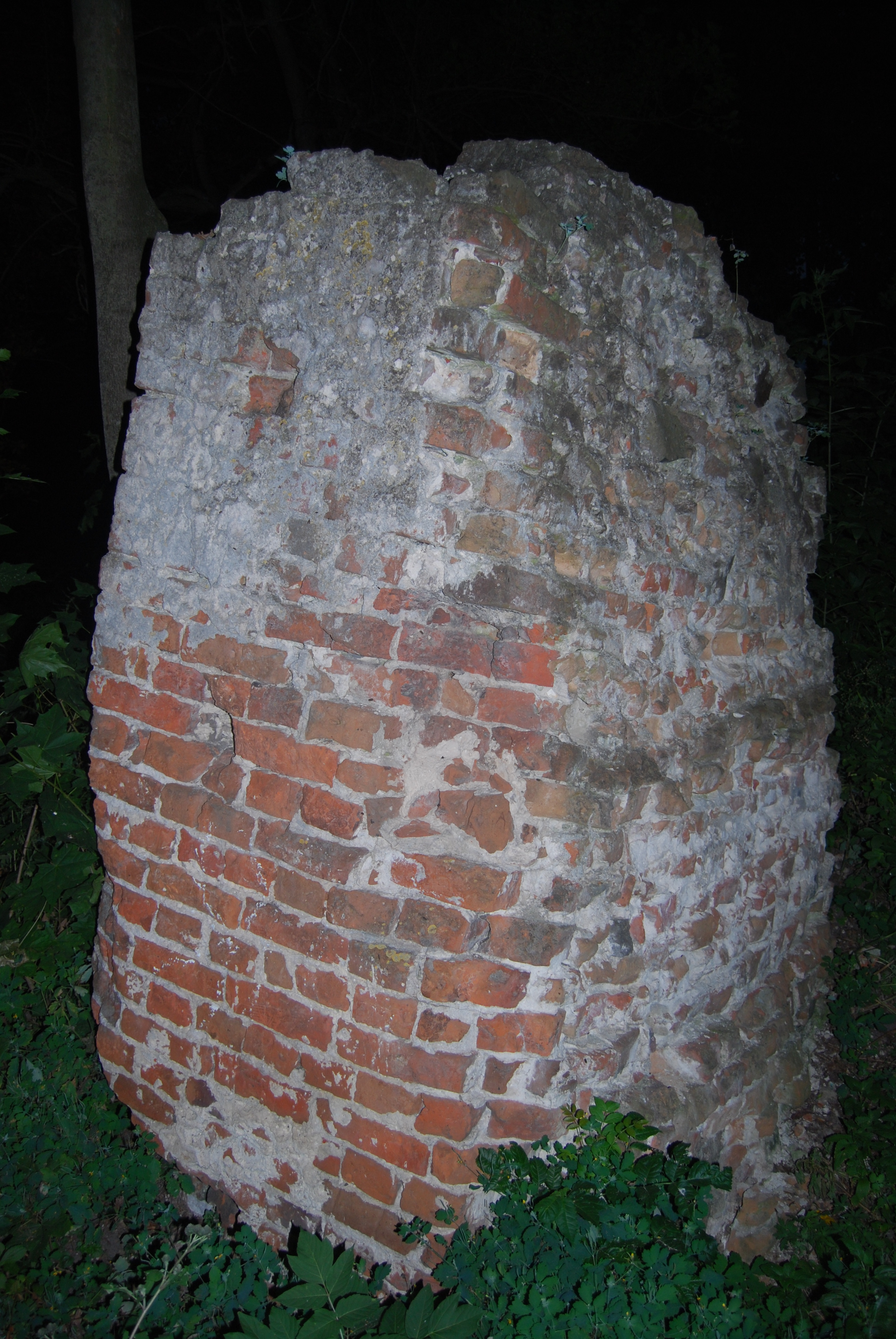 Remnants of gothic castle built in 16th century by Konstanty Iwanowicz Ostrogski. Ruined in 18th century.